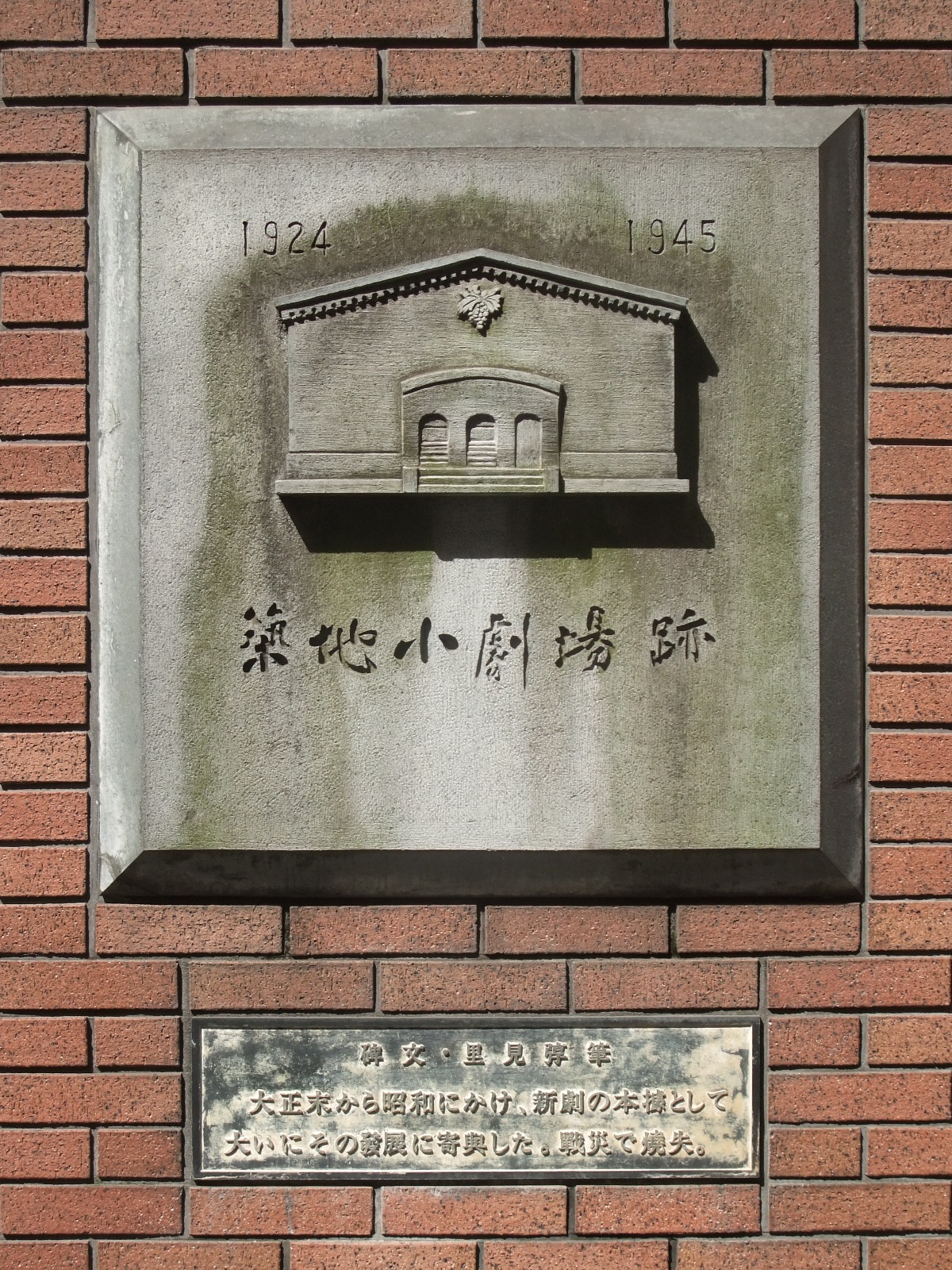 Monument of the Tsukiji Shogekijo (Tsukiji Little Theatre) in Chuo-ku, Tokyo